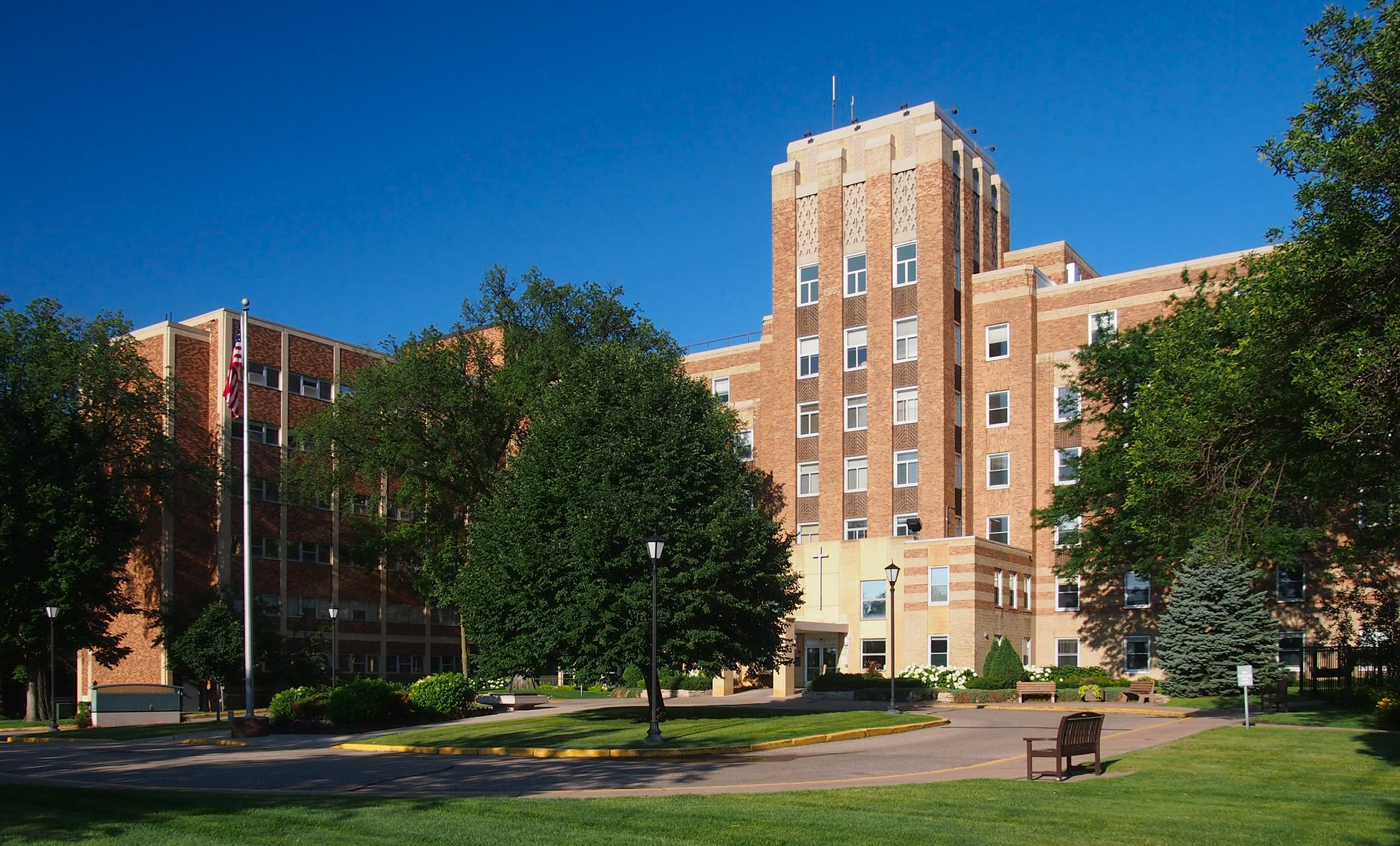 Bethesda Hospital, 559 Capitol Blvd, St Paul, Minnesota, USA. Viewed from the northeast.